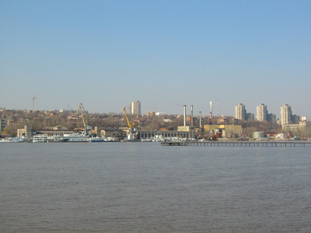 Don river under the sun